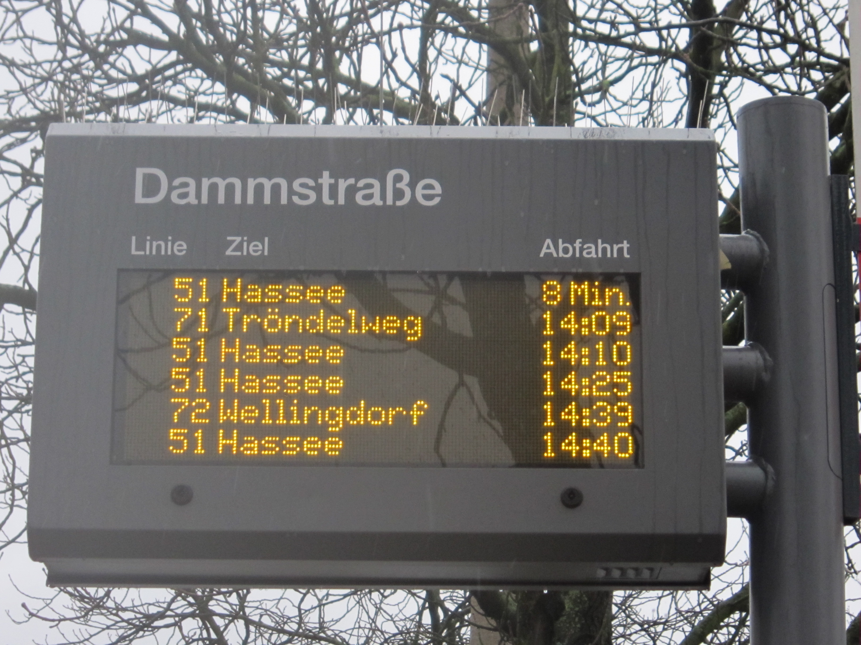 Scoreboard at the bus stop "Dammstraße" in Kiel-Exerzierplatz